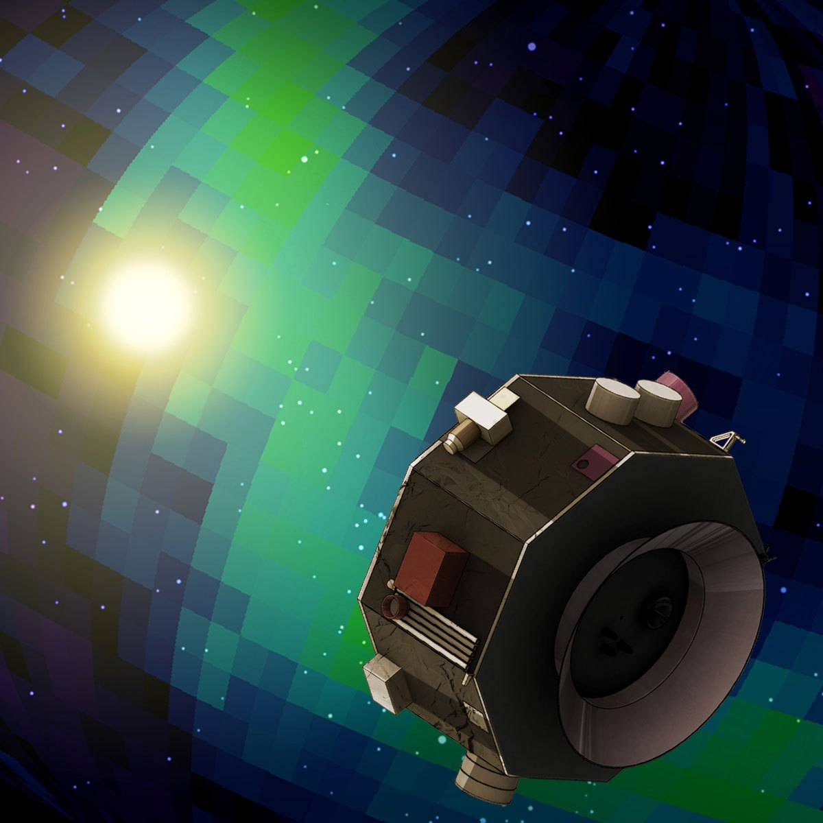 This illustration shows the Interstellar Mapping and Acceleration Probe observing signals from the interaction of the solar wind with the winds of other stars.